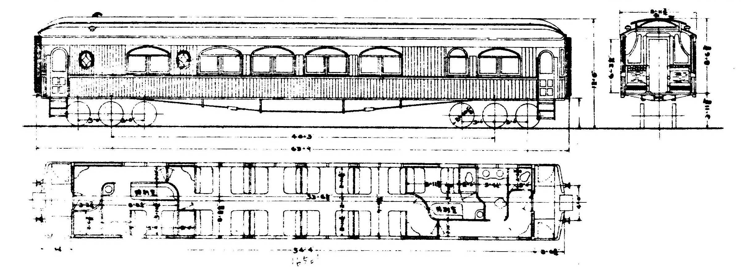 Type drawing of JGR's Fusuine9030 type passenger car.